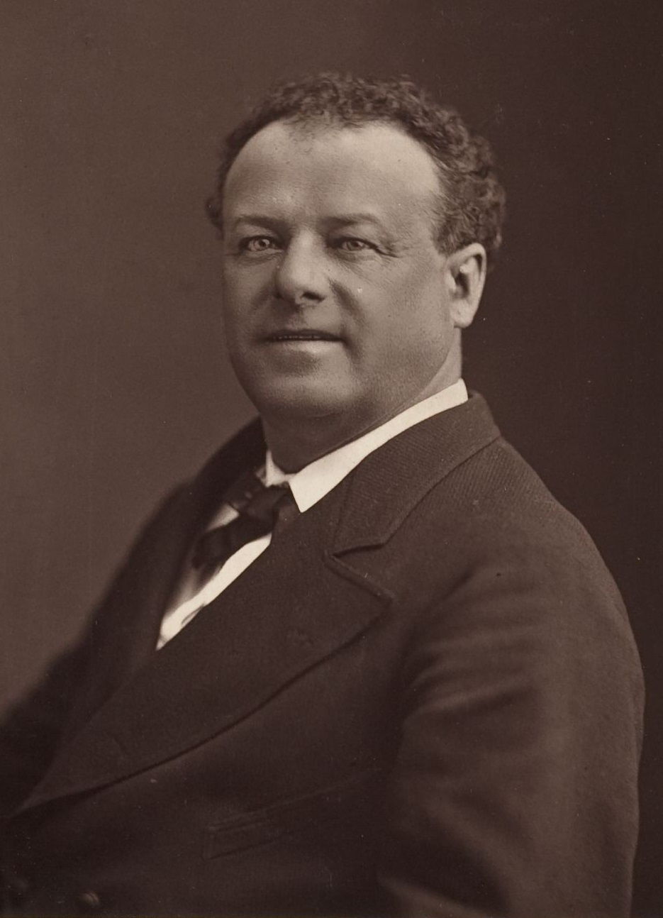 Cabinet card image of French actor, singer, and comedian Jean-François Berthelier (1830-1888). TCS 1.2447, Harvard Theatre Collection, Harvard University